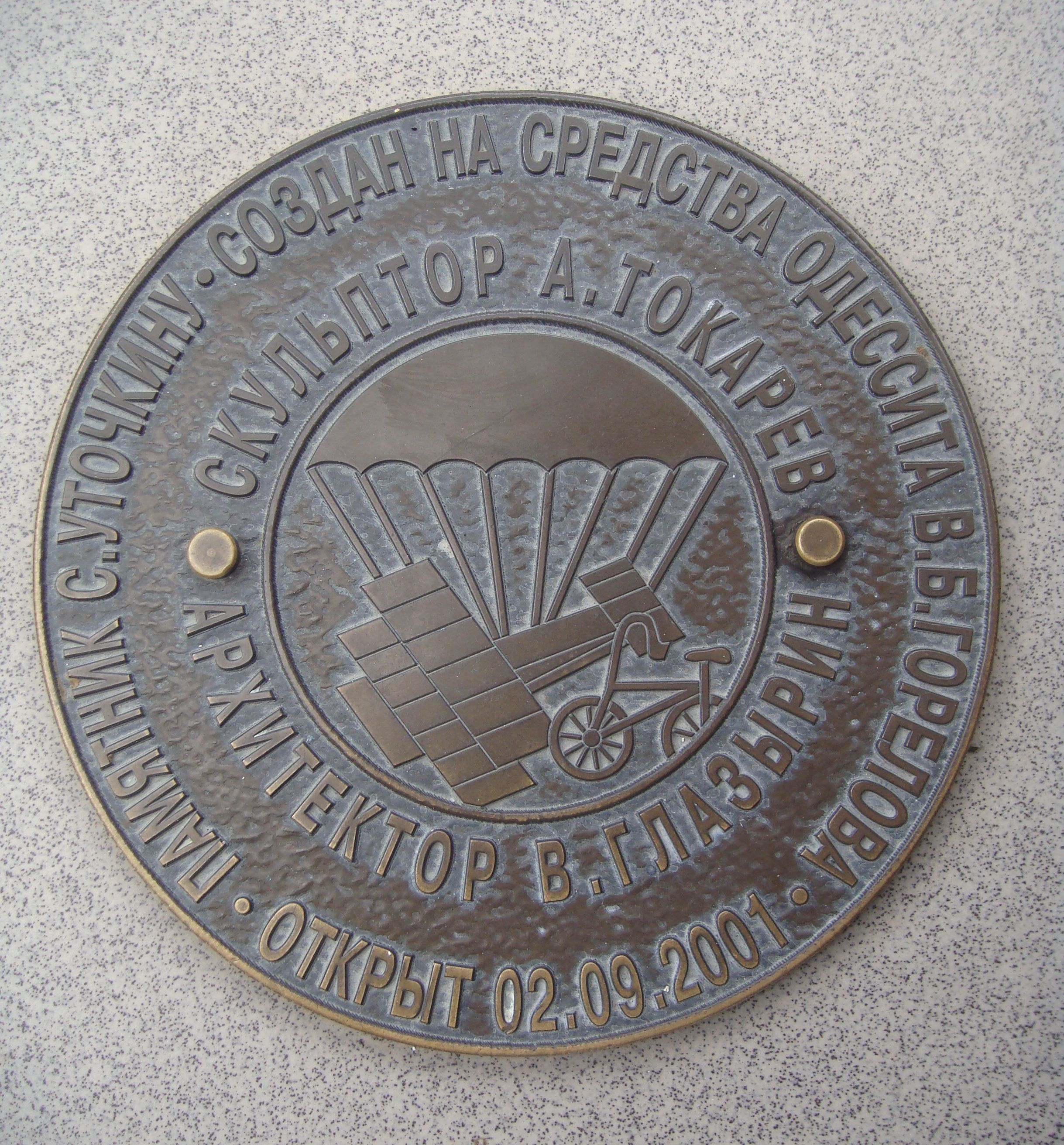 Commemorative plaque on the monument to Sergey Utochkin in Odessa